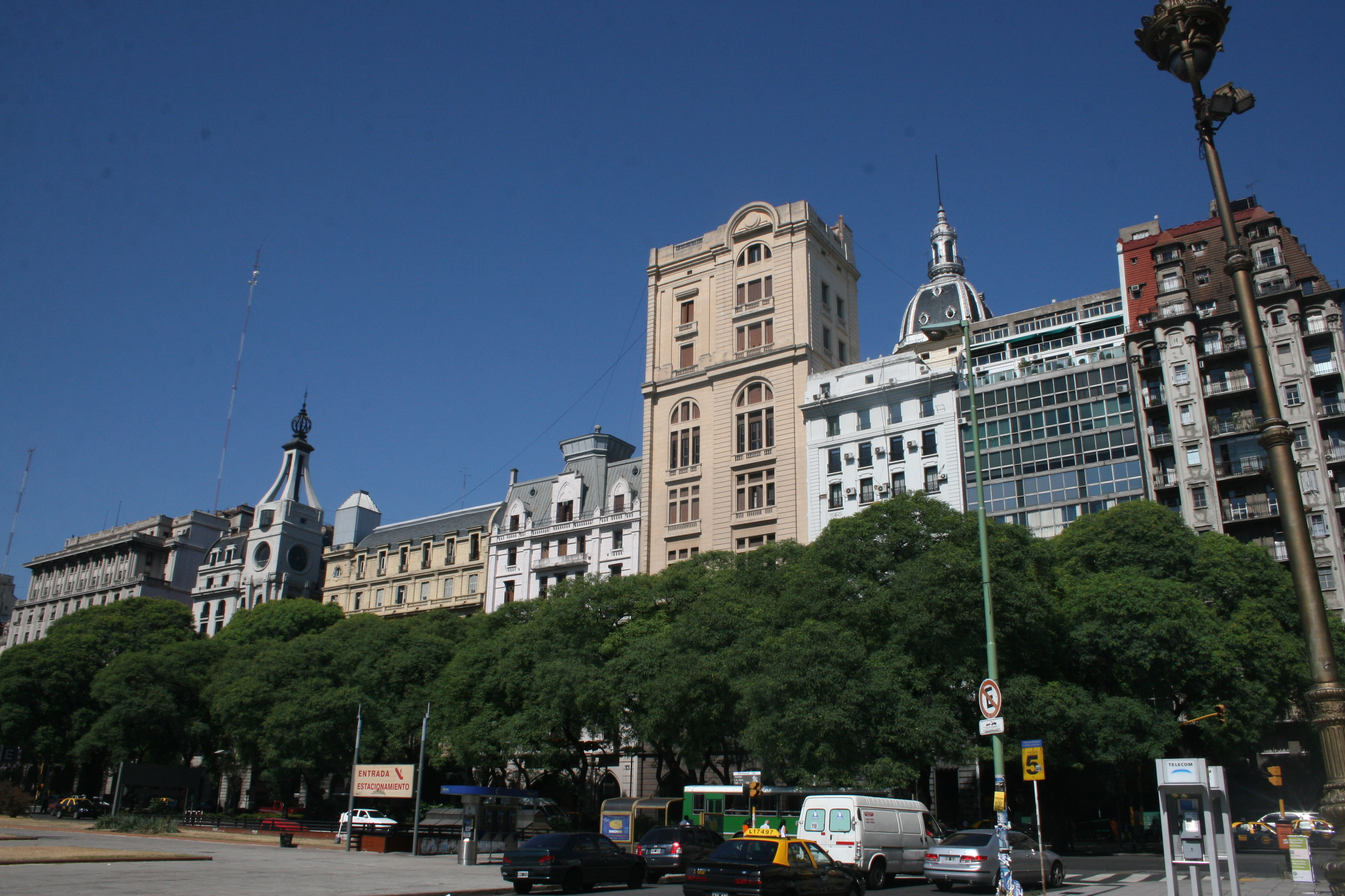 Eclectic architecture on Leandro Alem Avenue, Buenos Aires.